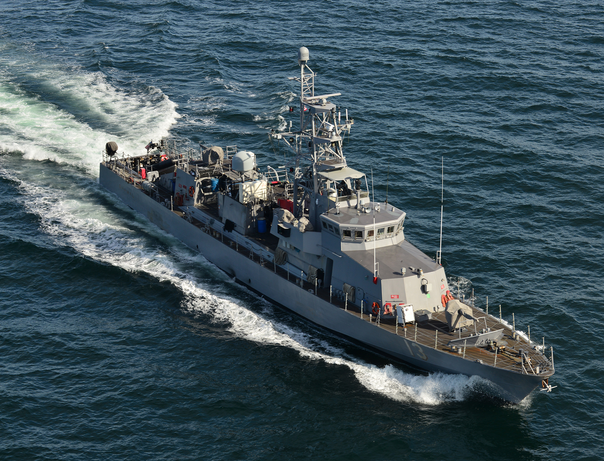 The U.S. Navy patrol craft ship USS Shamal (PC-13) sails off the coast of Northern Florida.